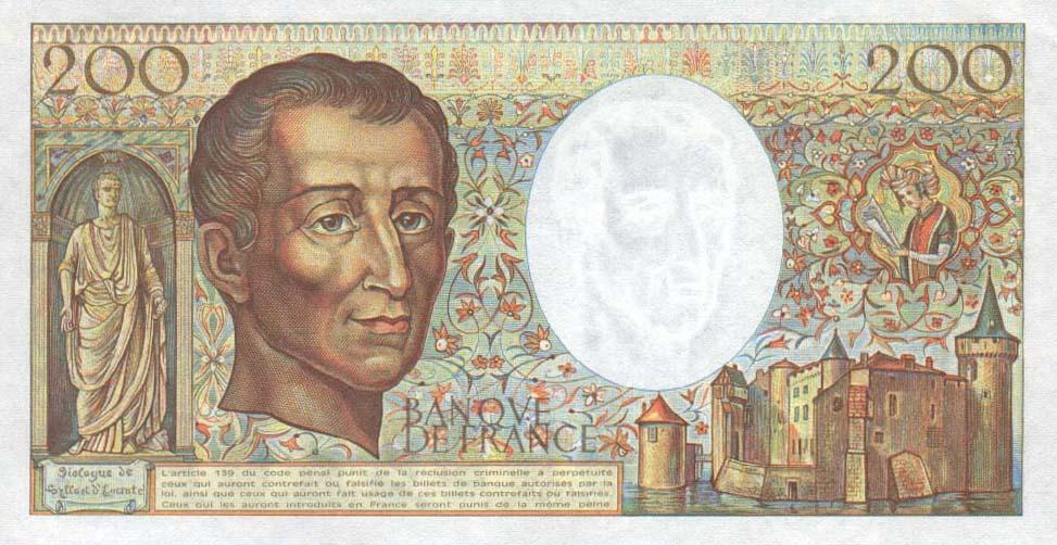 France 200 francs 1983